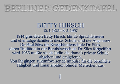 Berlin's commemorative plaque dedicated to Betty Hirsch at Rothenburg street 14 at Berlin-Steglitz